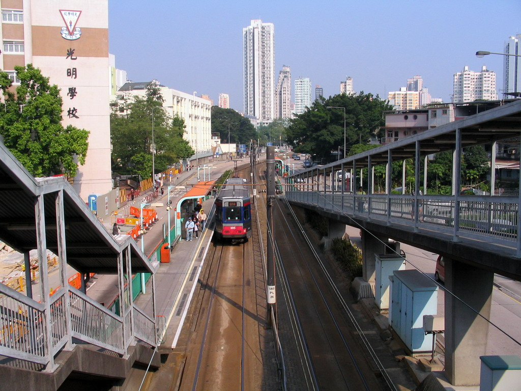 輕鐵 水邊圍站 Shui Pin Wai Stop, Light Rail